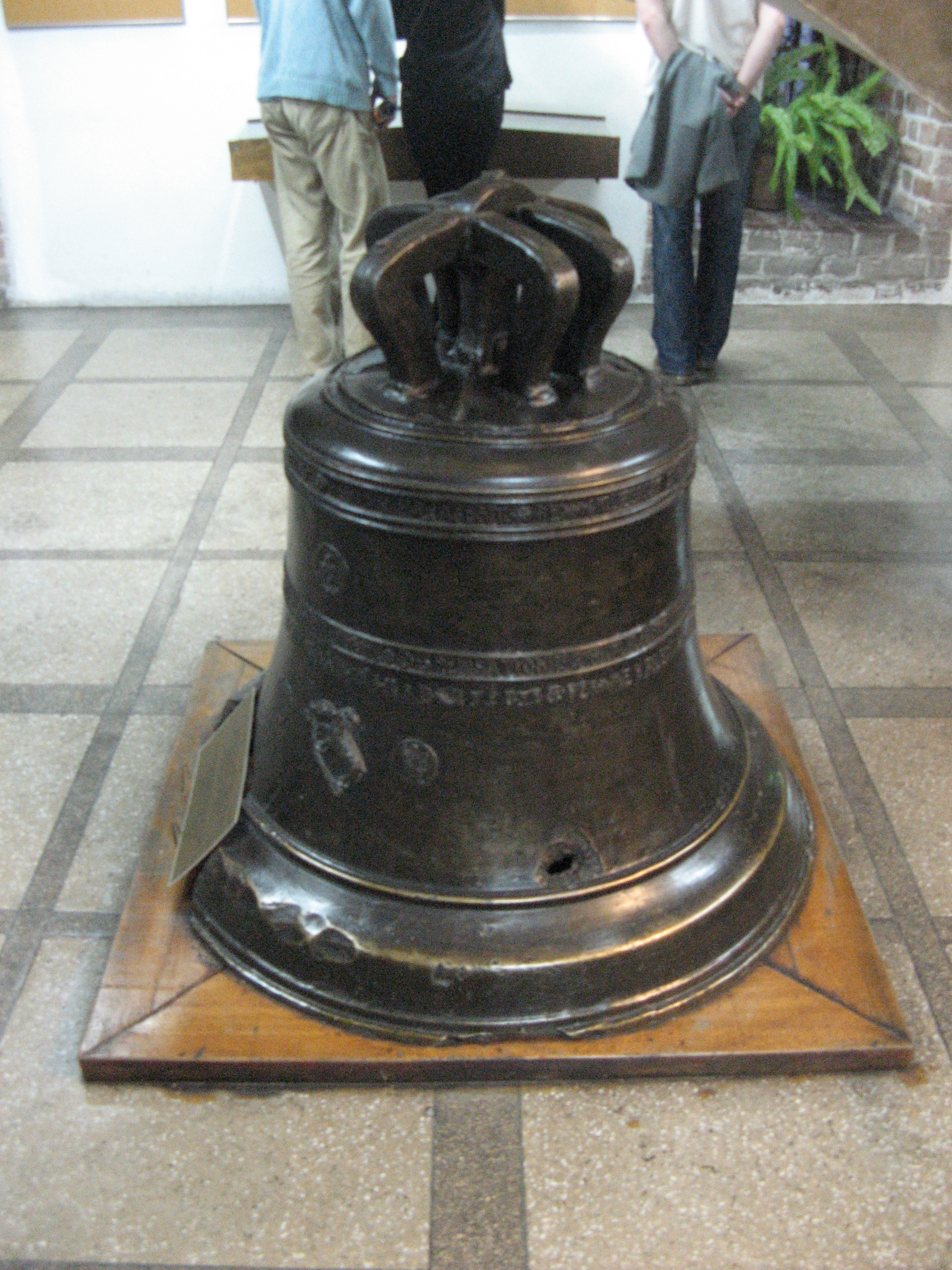 A clock bell cast in Lublin in 1585 and hung in the Cracow Gate. Damaged in 1944.